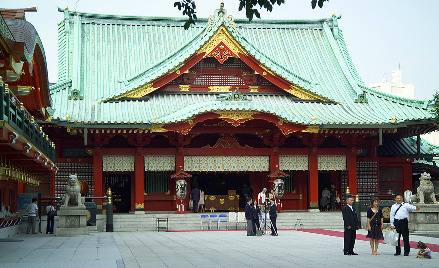 Kanda Myojin, a Shinto shrine (jinja) in Tokyo, Japan. I took this photo and contribute my rights in the file to the public domain; people and organizations retain rights to images in it.